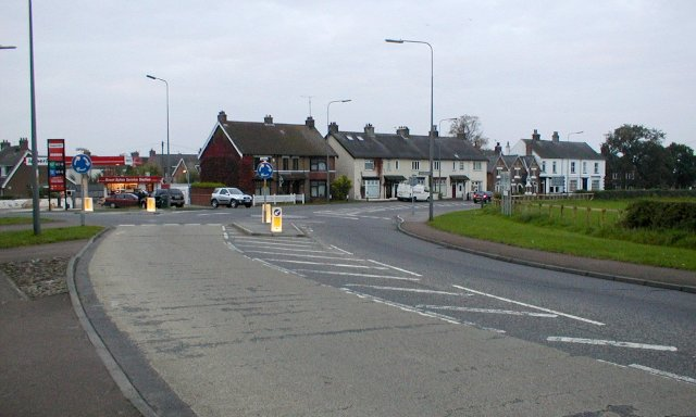 A173 Newton Road The mini island is a recent innovation but there are discussions as to whether it should be removed and the T junction restored.